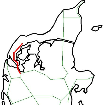 Map of railways in Northen Jutland and Vendsyssel-Thy in Denmark with the state railway Thybanen from Struer to Thisted in red. Since 2003 most trains on the line are driven by the private Arriva, but the danish state is still the owner.